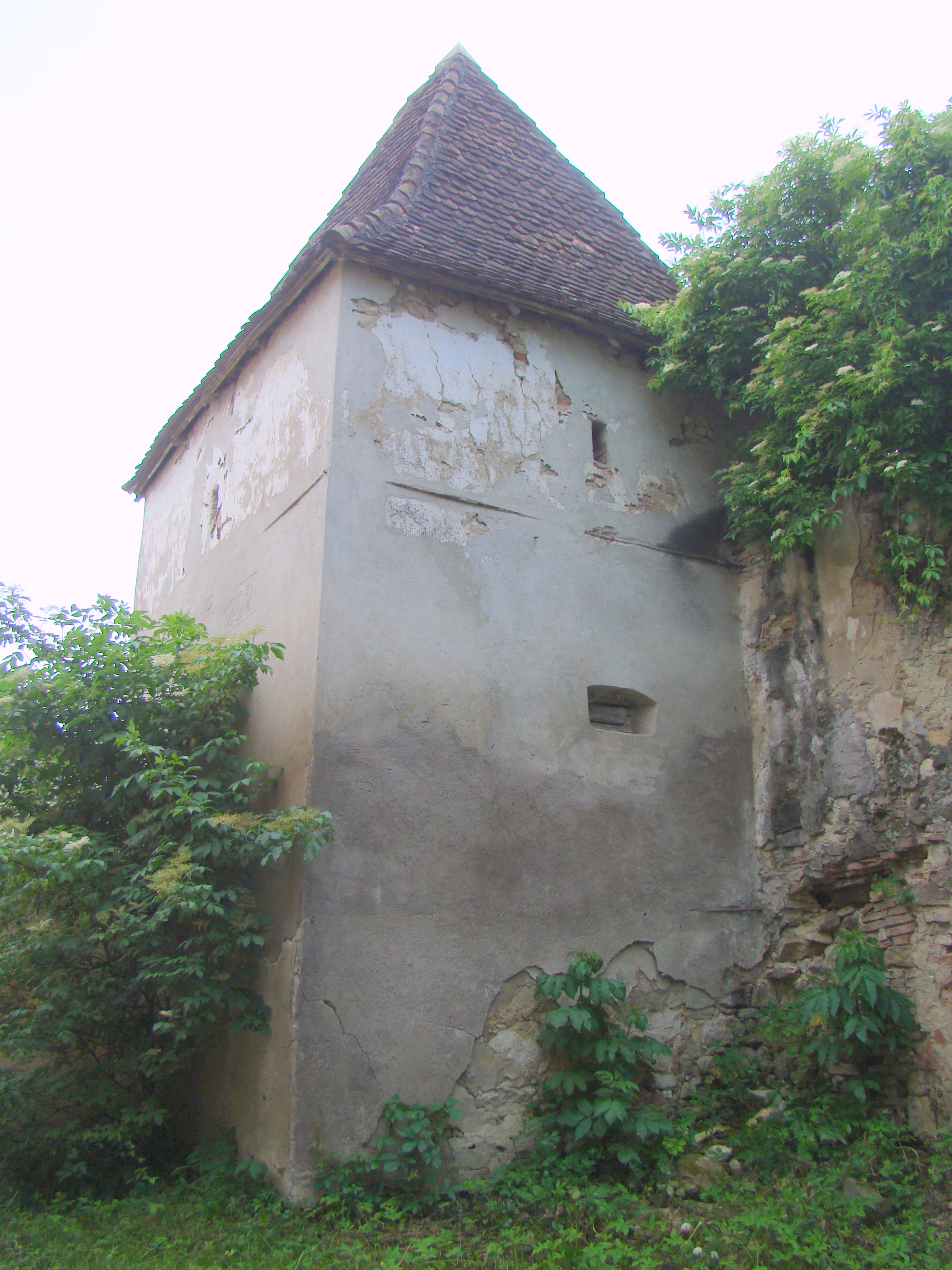 Fortified church in Dacia, Brașov County, Romania